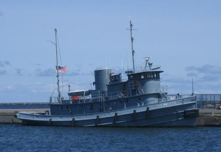 Nash (harbor tug) at H. Lee White Maritime Museum in Oswego, New York. Profile from across water.